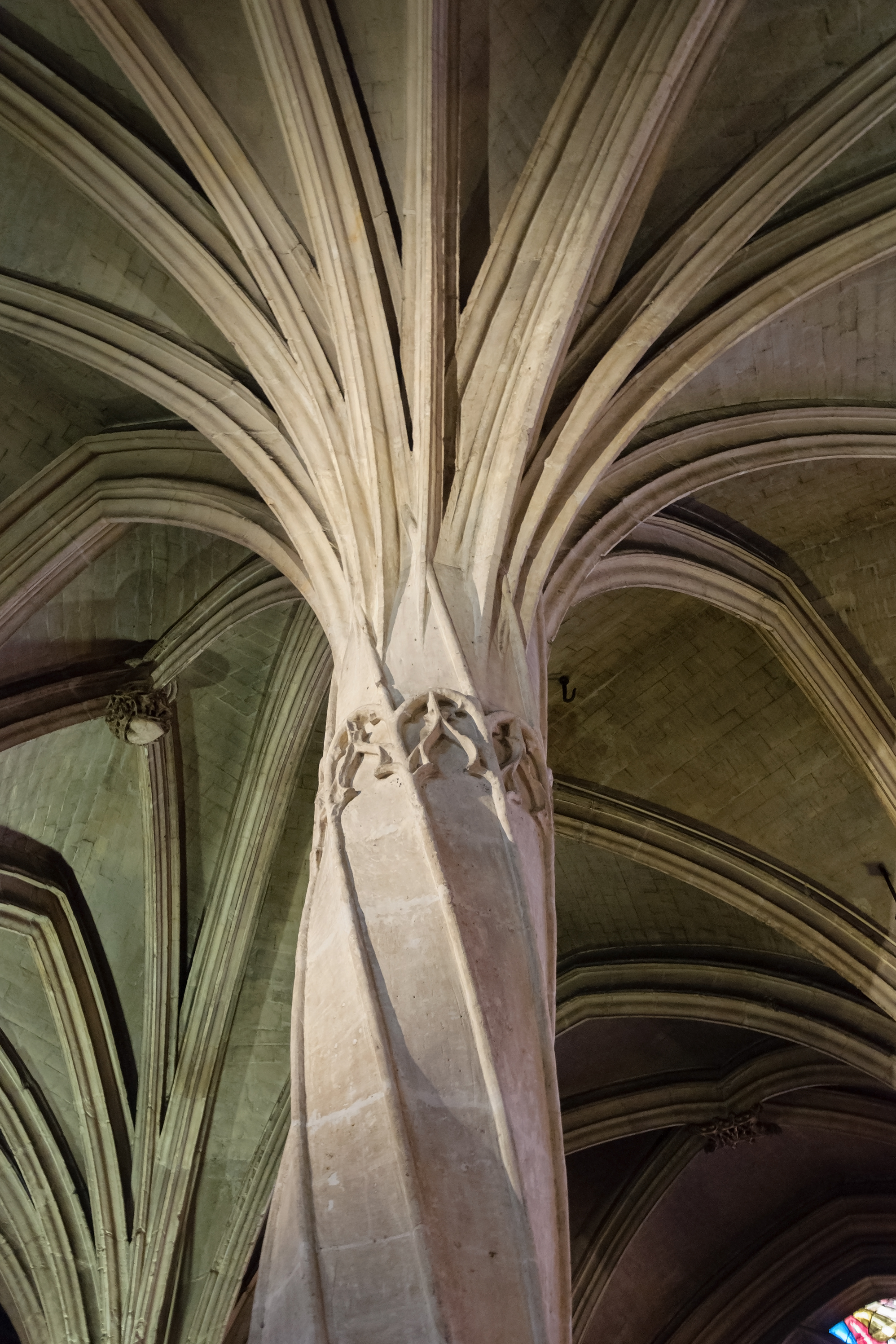 The spiral palm tree column in the deambulatory of the church of Saint-Séverin in Paris, France